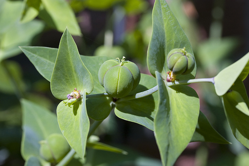 Euphorbia lathyris fruits and flower